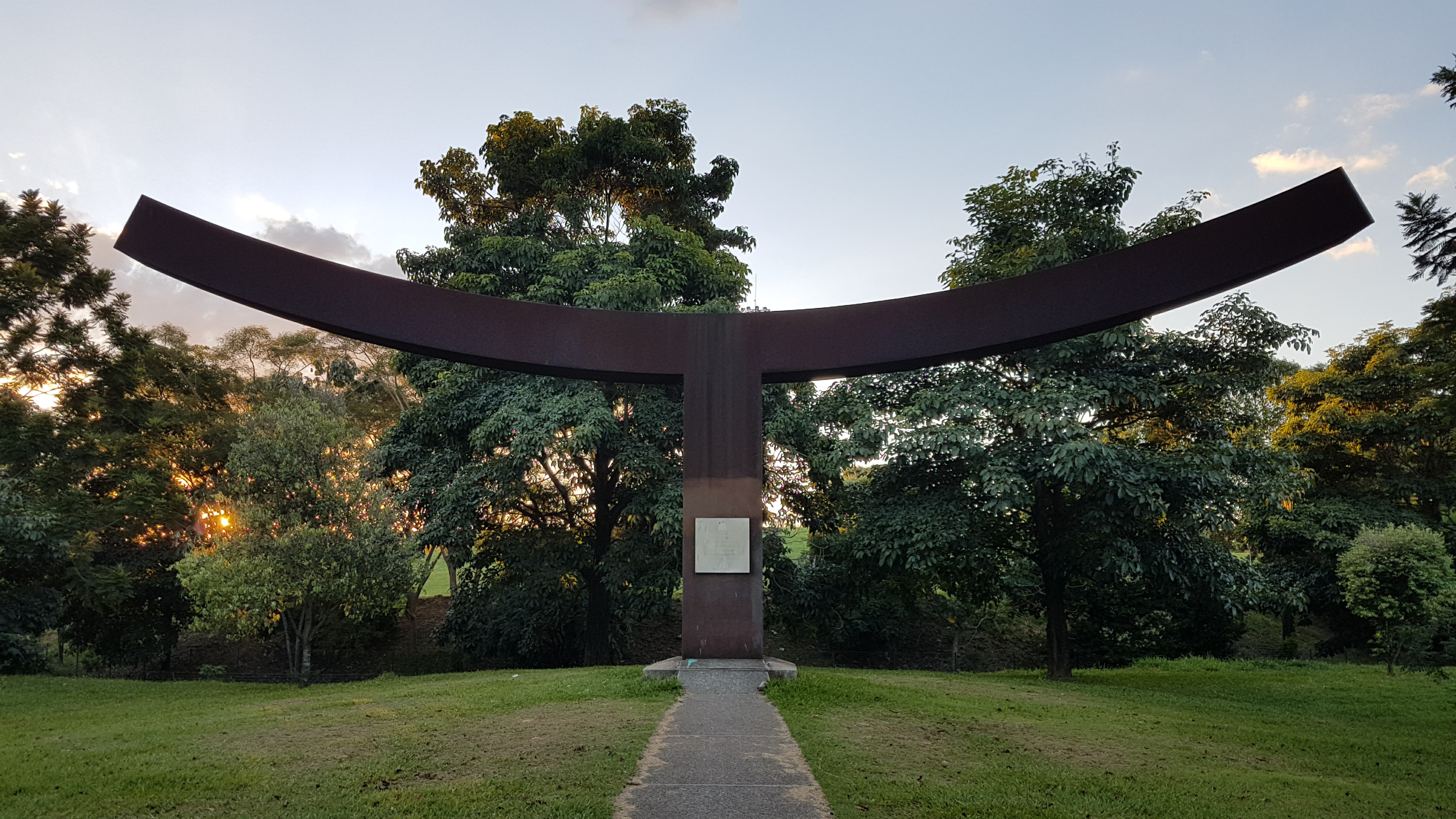 Monument in honor of prosecutor Francisco José Lins do Rego, killed on January 25, 2002, after investigating fuel trade fraud in Minas Gerais.